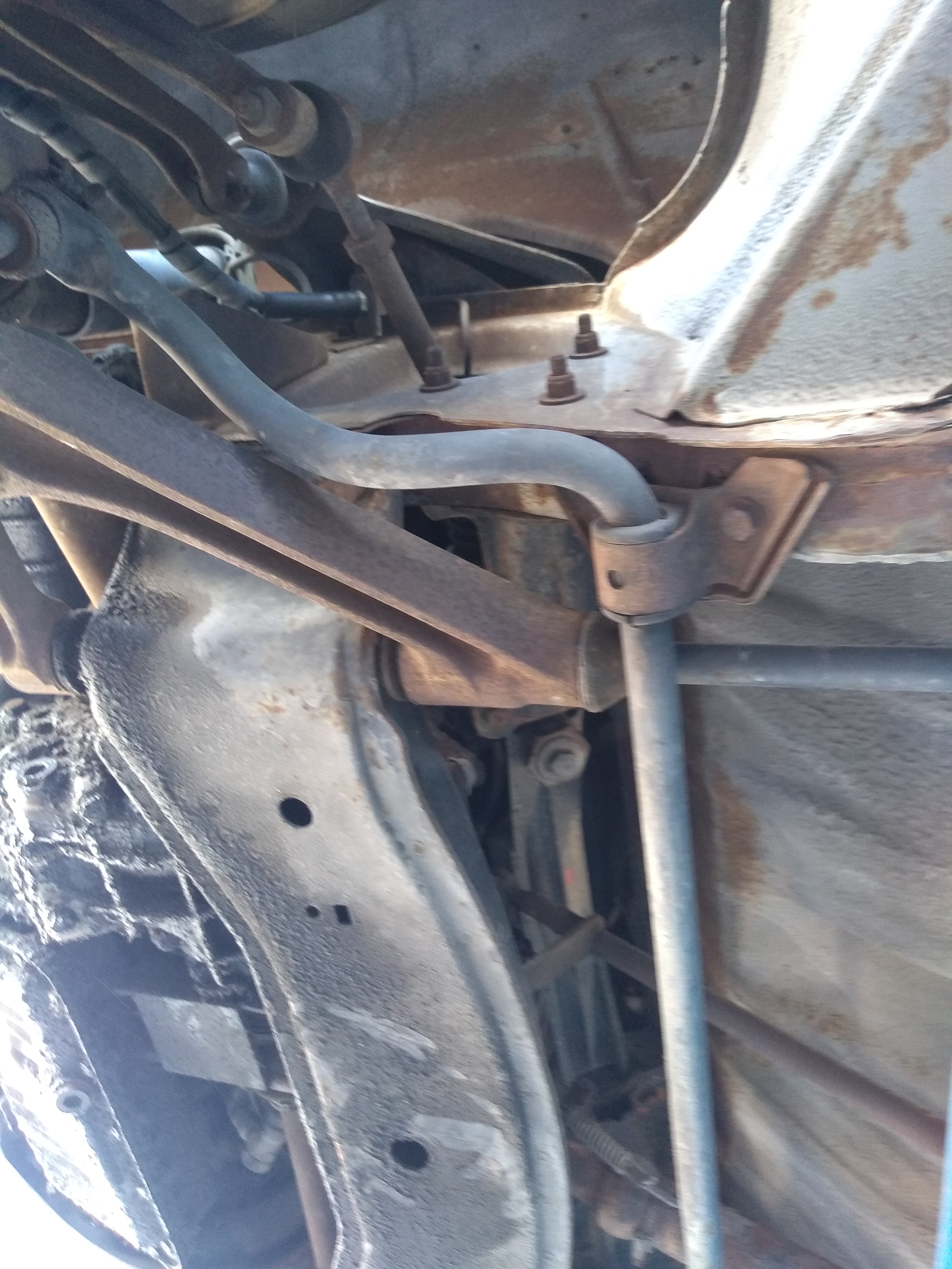 Simca 1100 front suspension. It uses a double wishbone diagram with torsion spring bar attached to the axis of the lower triangle